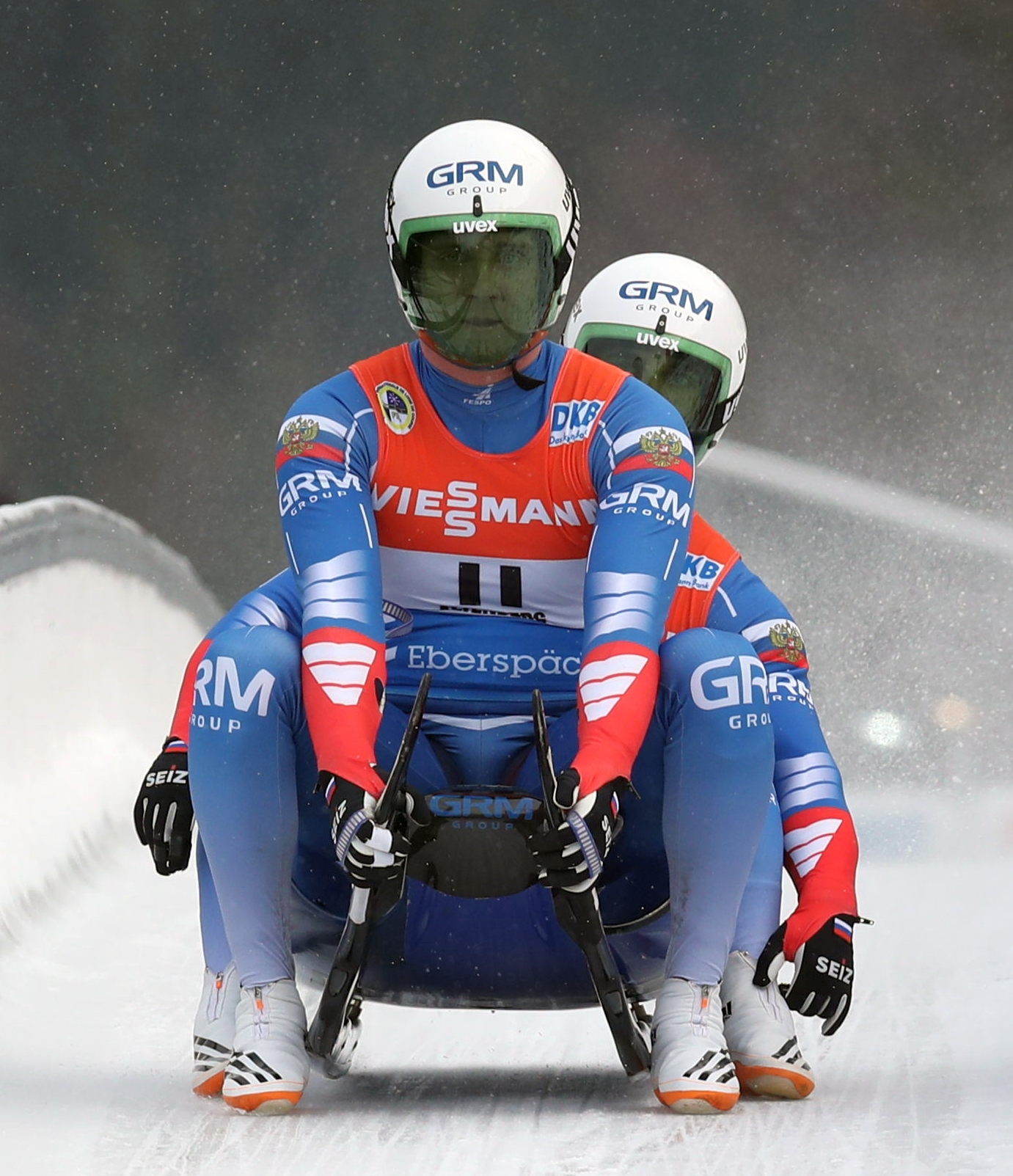 Doubles race at the Altenberg luge world cup 2017/18: Vladislav Yuzhakov,Iuri Prokhorov